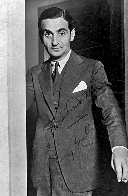 Photo still of Irving Berlin, with signature.